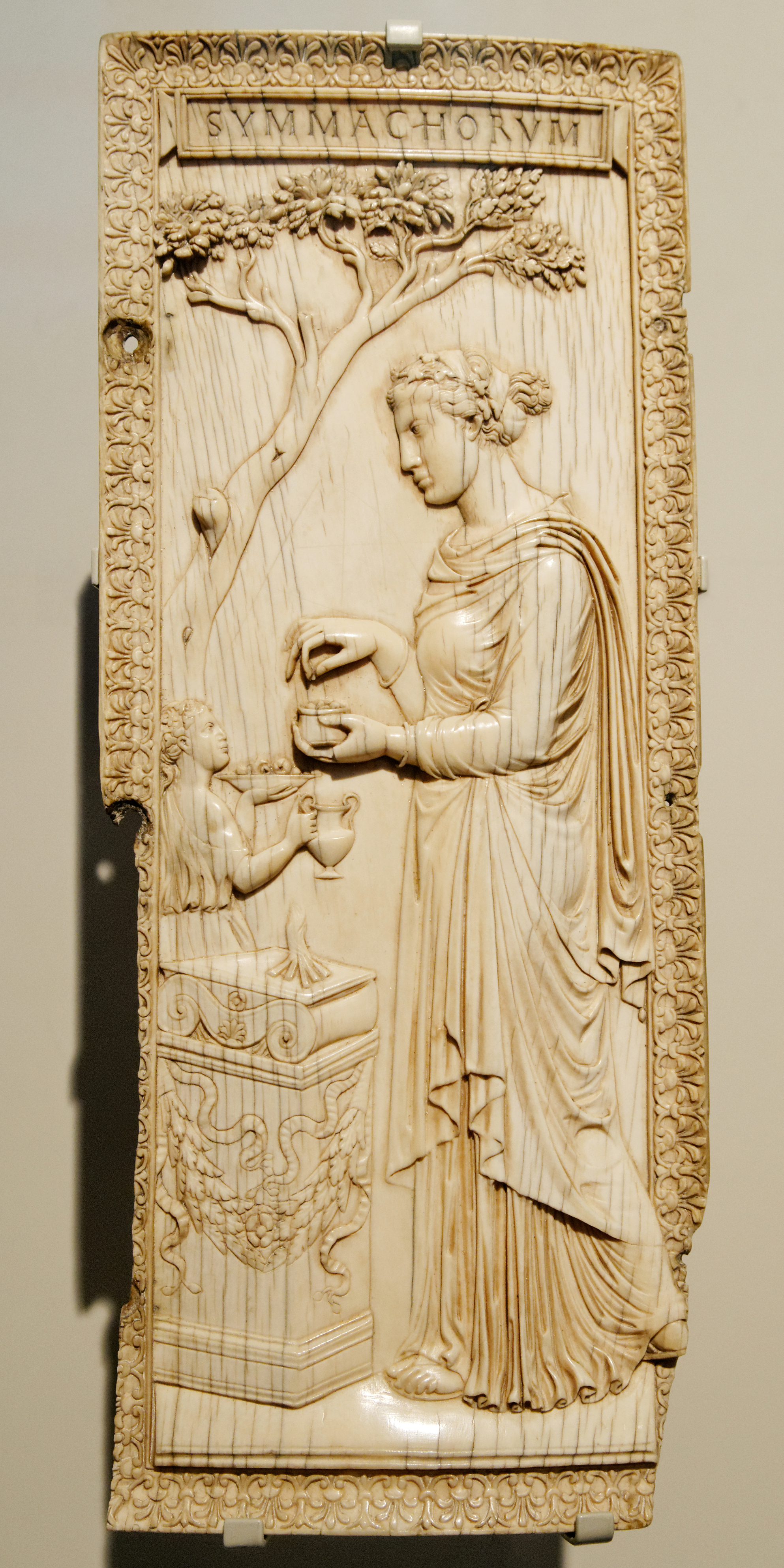 A priestess standing at the altar and beneath an oak tree; diptych leaf of the Symmachi. Made in Rome, Italy.